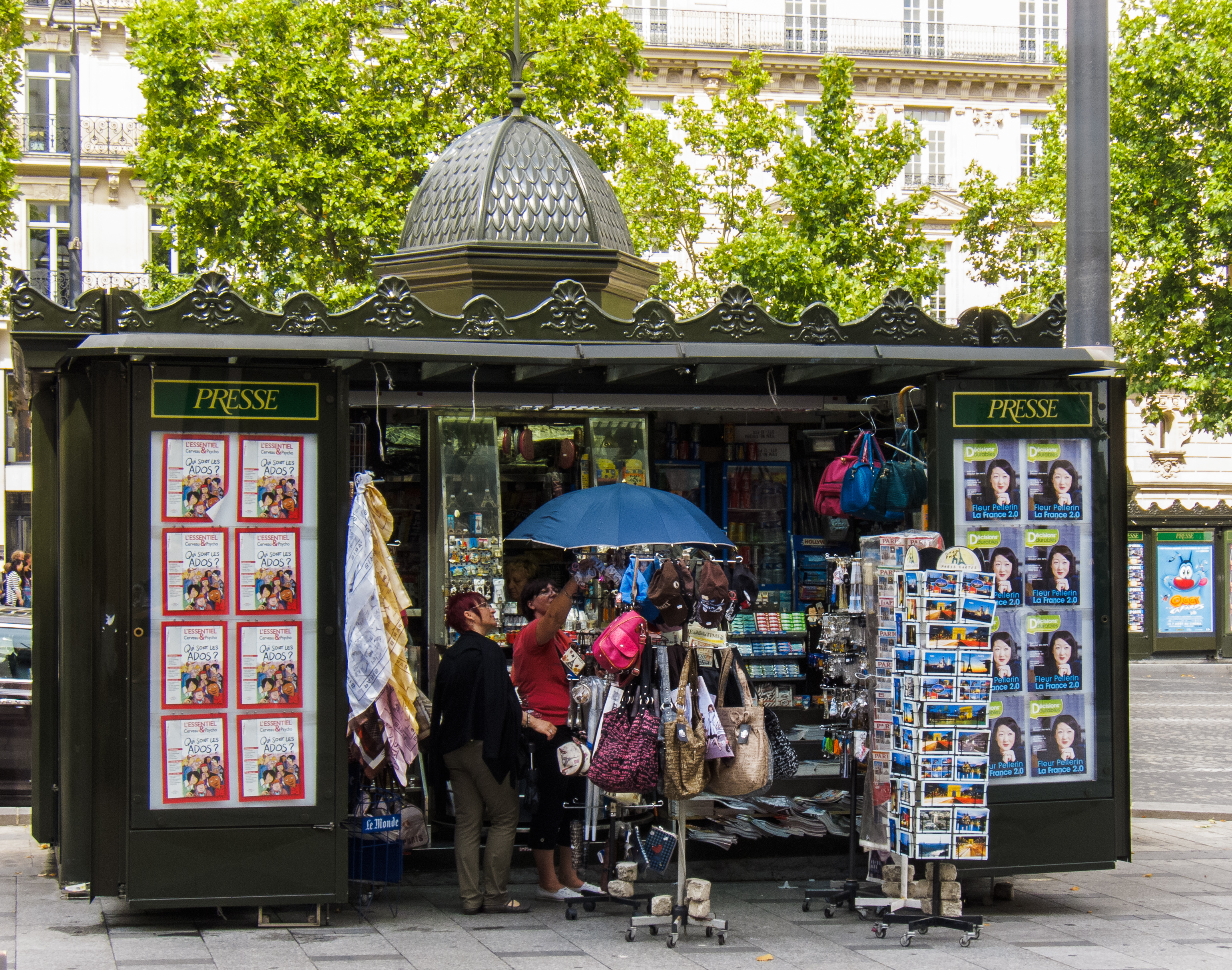 Newsstand, Champs-Élysées, Paris.